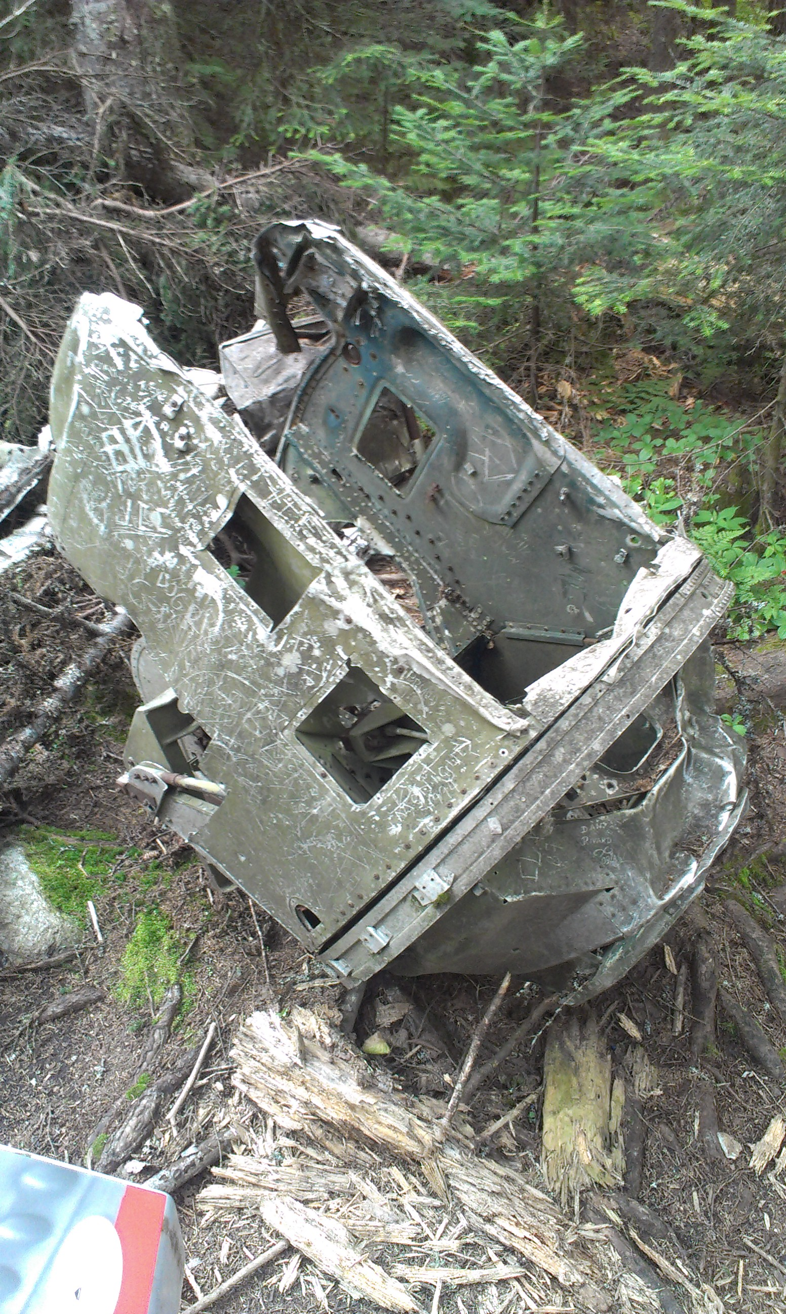 Remains of the rear gun turret of the aircraft at the 1943 Saint-Donat Liberator III crash site.